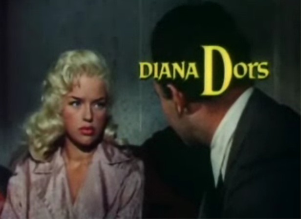 Cropped screenshot of Diana Dors from the trailer for the film The Unholy Wife.